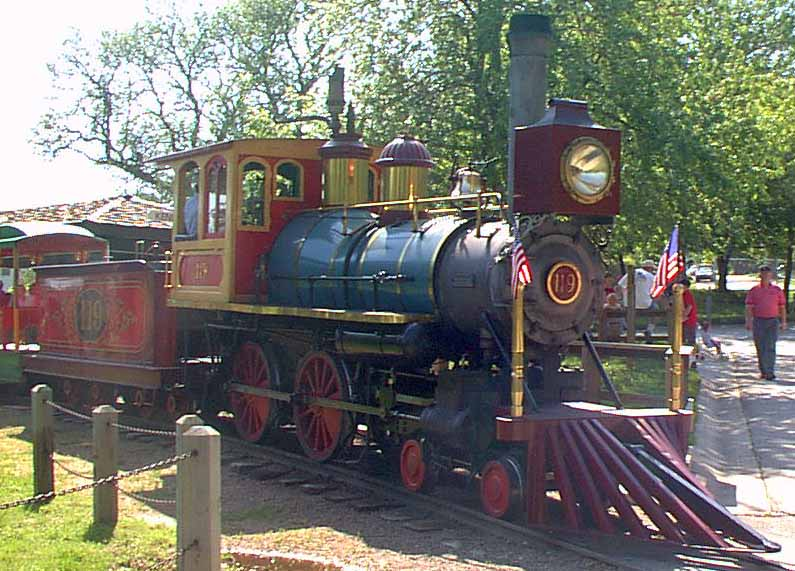 Omaha Zoo Railroad steam locomotive Number 119 Photo by Samuel Smith-Shull, taken April 2001. Uploaded by the photographer.